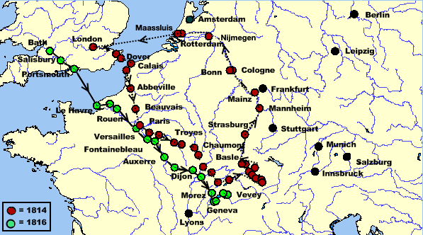 A map of the 1814 and 1816 journeys taken by Mary Shelley, Percy Shelley, and Claire Clairmont. Based on the map found in The Novels and Selected Works of Mary Shelley. Vol. 8. Ed. Jeanne Moskal. London: William Pickering, 1996, pg. 10. The 1814 trip is represented by a dotted line and the 1816 trip is represented by a solid line. Green dots indicate towns visited or stayed at during the 1816 trip, which ended in a three-month stay at Lake Geneva. Red dots indicate towns visited or stayed at during the 1814 trip. Black dots indicate towns not visited but perhaps helpful to the reader. The source map does not indicate what route the Shelleys used on the return trip to England for the 1816 trip.